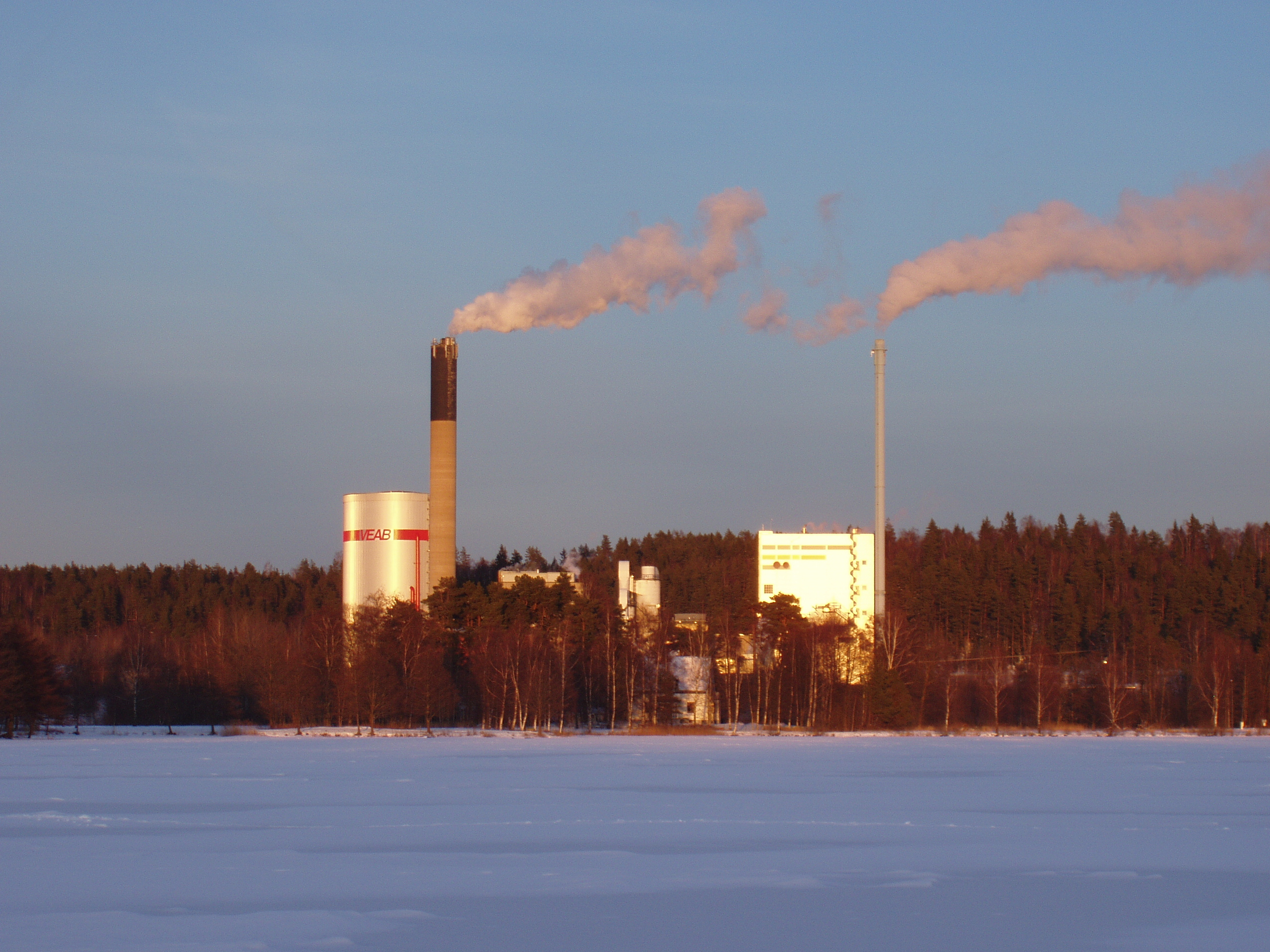 Continuing my obsession with different shades of the VEAB powerplant.